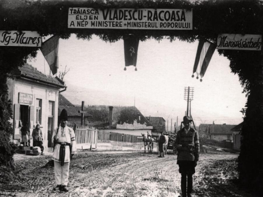 Triumphal arch erected for Gheorghe Vlădescu-Răcoasa during his visit to Târgu Mureș city. The inscription above, in both Romanian and Hungarian, credits him as "The People's Minister"; he was, in fact, Minister for Nationalities (i. e. Ethnic Minorities) in the Groza cabinet, and a founder of the National Popular Party. The two guards are wearing Romanian and Hungarian folk costumes.